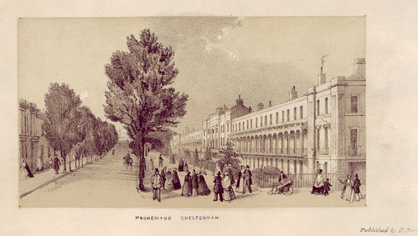 A print of Cheltenham Promenade by George Rowe circa 1830.